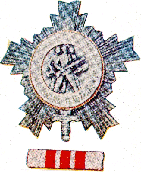 Order of the National army with silver star